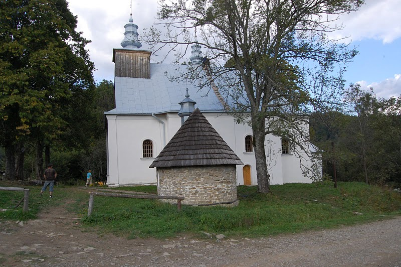 Greek-catholic church in Łopienka. Bieszczady mountain in east-south Poland